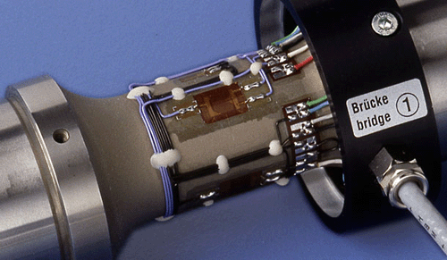 picture of torque transducer with shaft spring element (a section of the open transducer is displayed only)